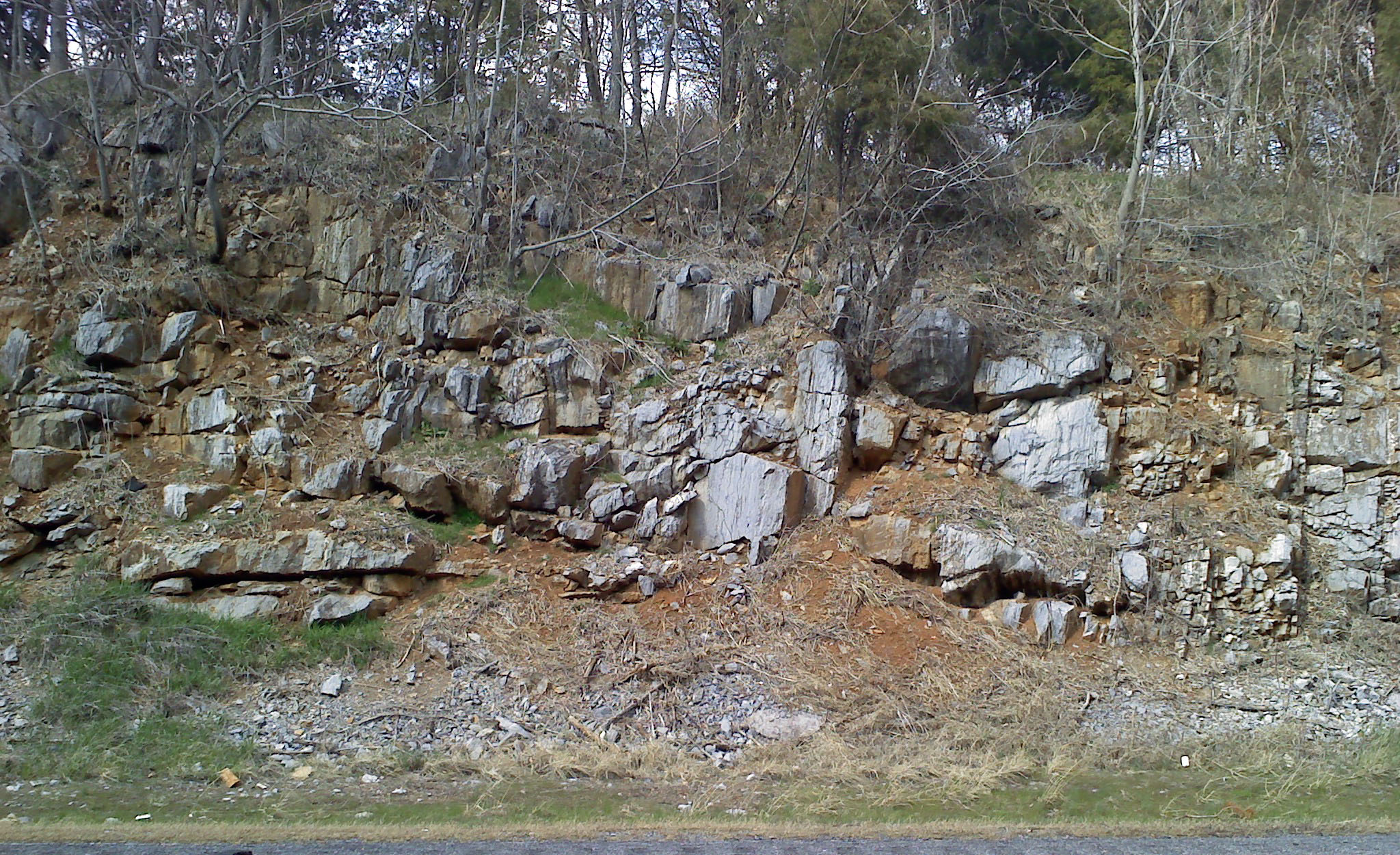 Outcrop of Conococheague Formation along I-70, eastbound lane, Mile Marker 20.5, facing north. This is only part of a much longer roadcut. Taken April 3, 2011.